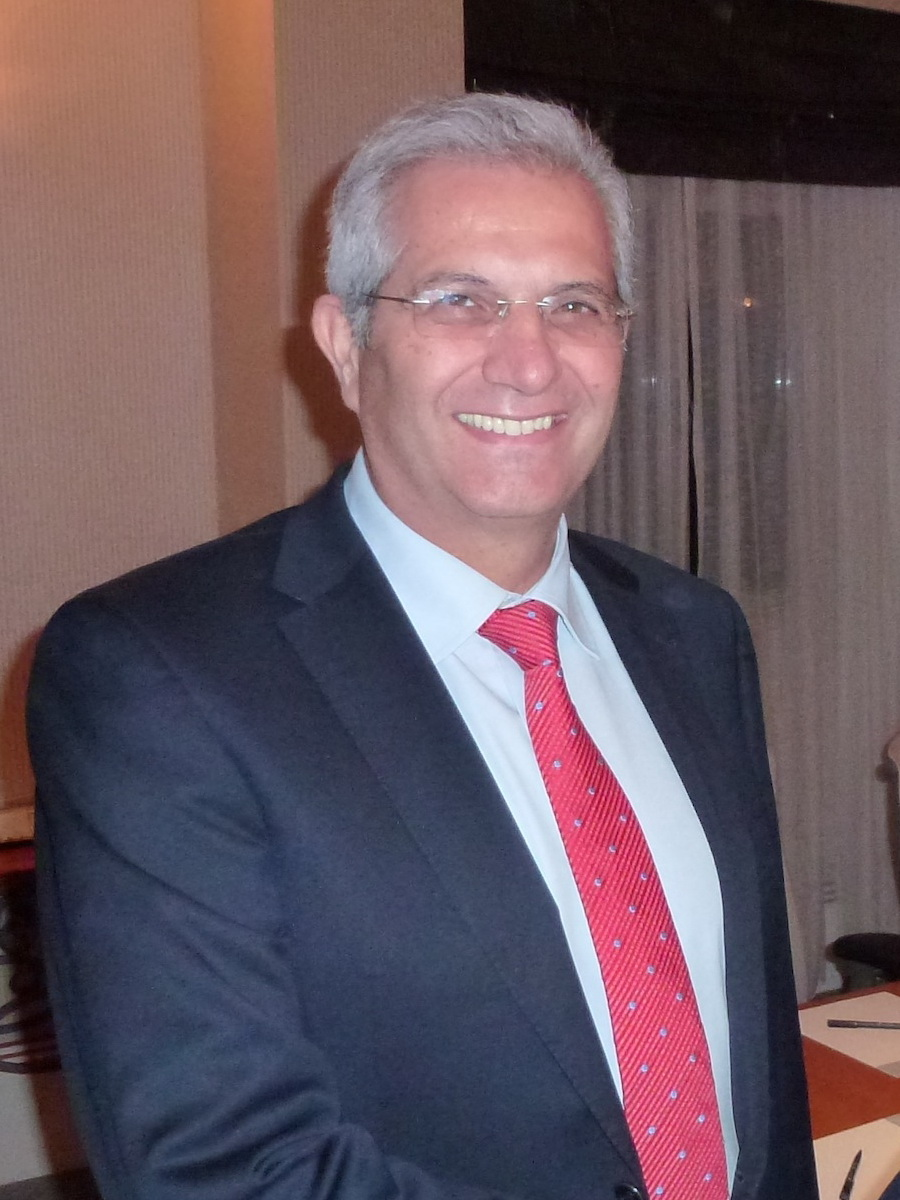 Leader of the Communist party of Cyprus, AKEL, Andros Kyprianou 21 November 2011.